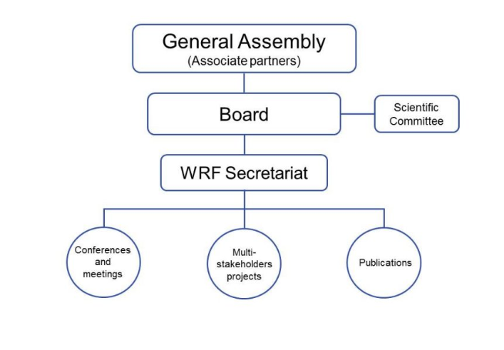 This picture describes the organisational structure of the World Resources Forum